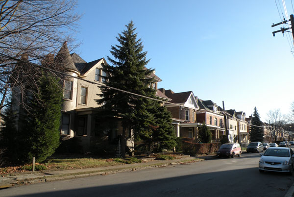 Picture of Highland Park Residential Historic District in the Morningside neighborhood of Pittsburgh, Pennsylvania, on December 12, 2009. Houses in this district were built from the 1870s into the 1900s, and the district is listed on the National Register of Historic Places. This picture was taken near the corner of Chislett Street and Wellesley Avenue.